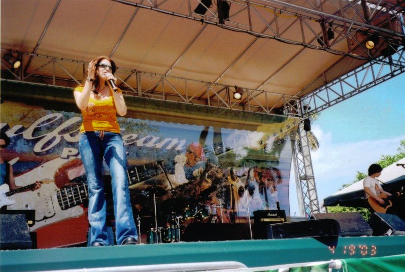 Tiffany, performing at Gulfstream Park (Florida) on April 19, 2003, taken by Daniel R. Tobias.